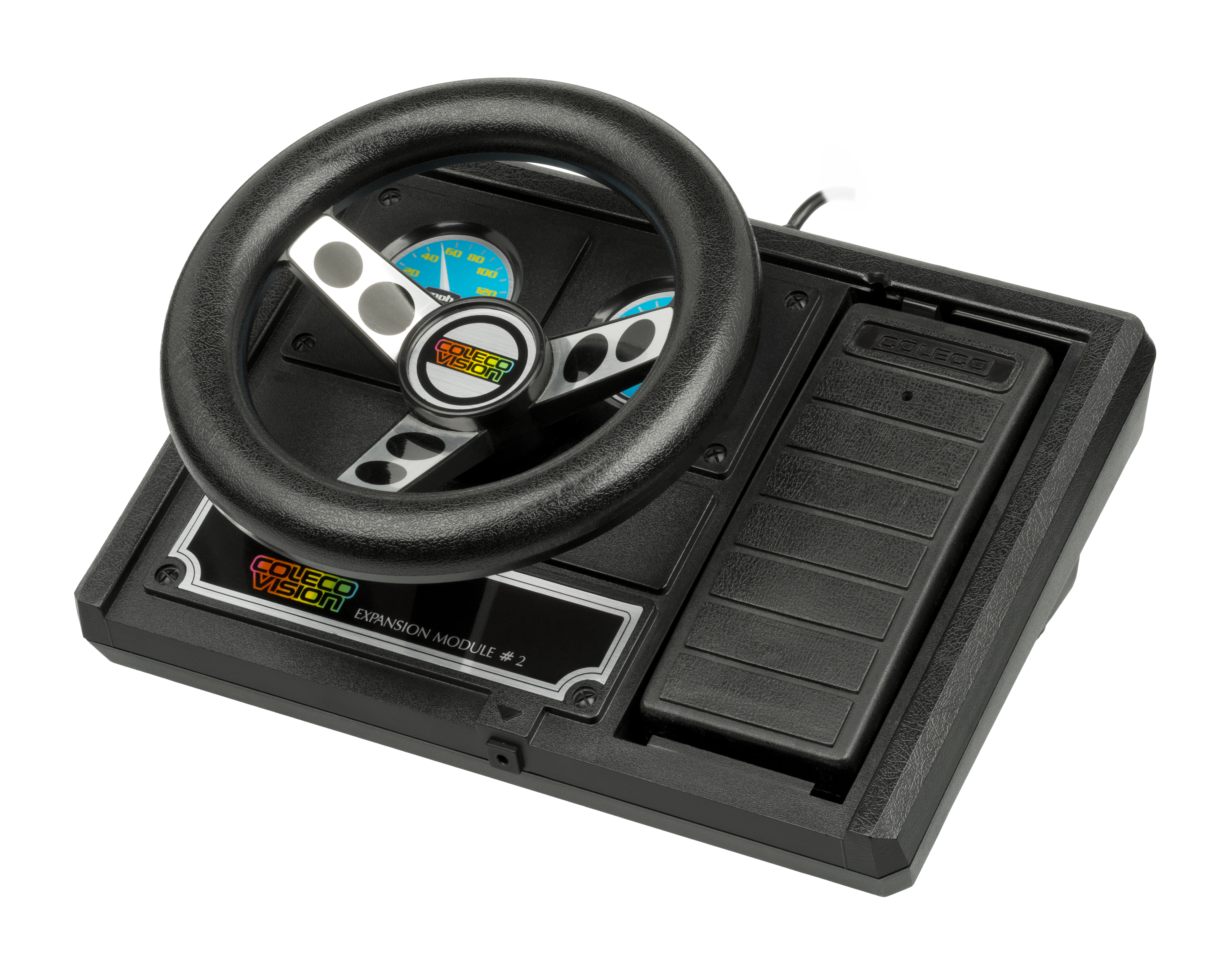 The Expansion Module #2 for the ColecoVision console, a second generation gaming console released in 1982 by Coleco Industries. This Expansion plugged into the front of the ColecoVision and provided a racing wheel controller and gas pedel for a few select games.